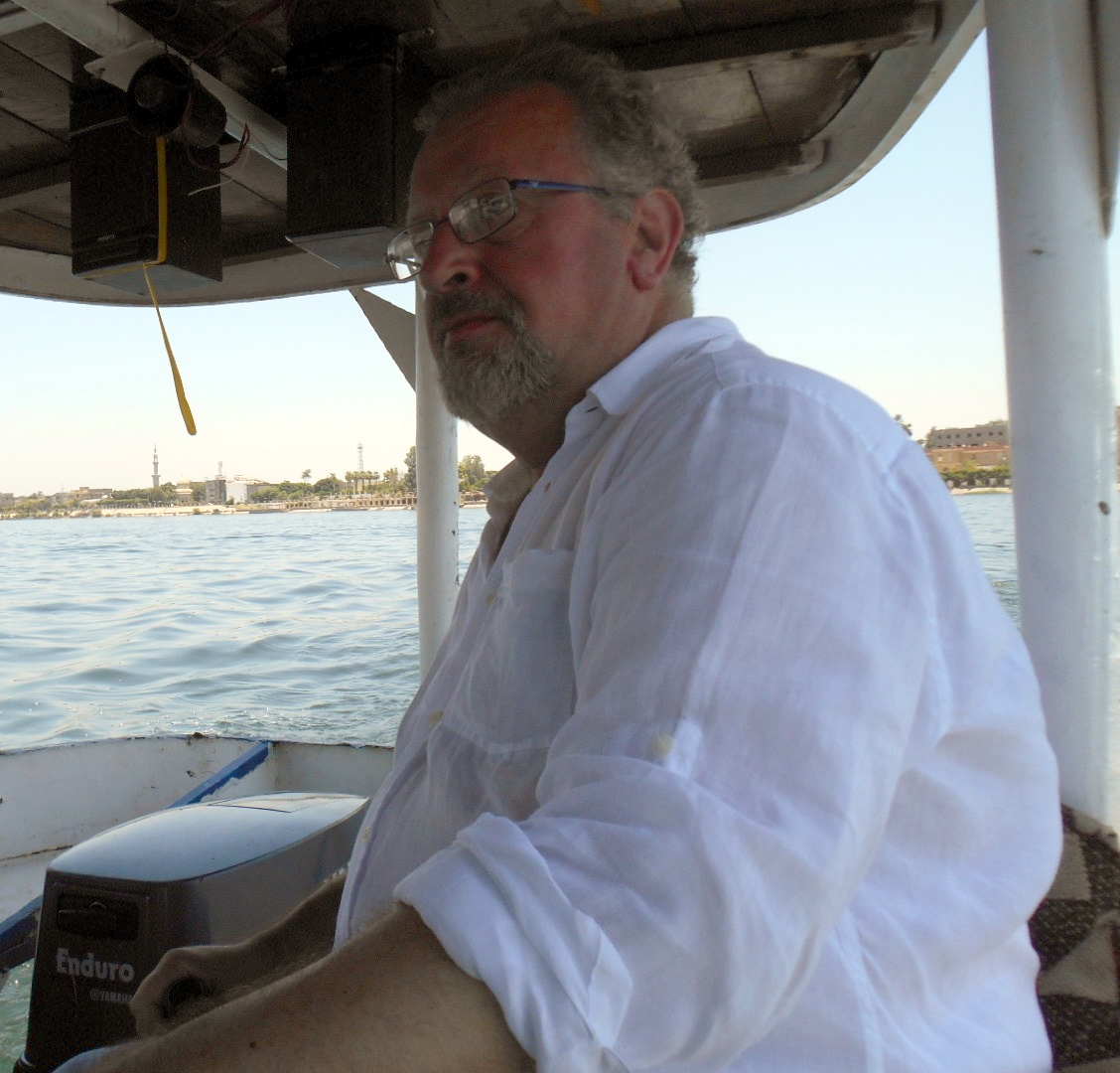 Steering a boat across the Nile river in Luxor, Egypt.